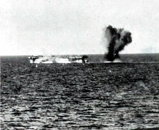 A Japanese Kamikaze plane crashes aft of the U.S. Navy escort carrier USS Lunga Point (CVE-94) east off the Philippines, on 4 January 1945.